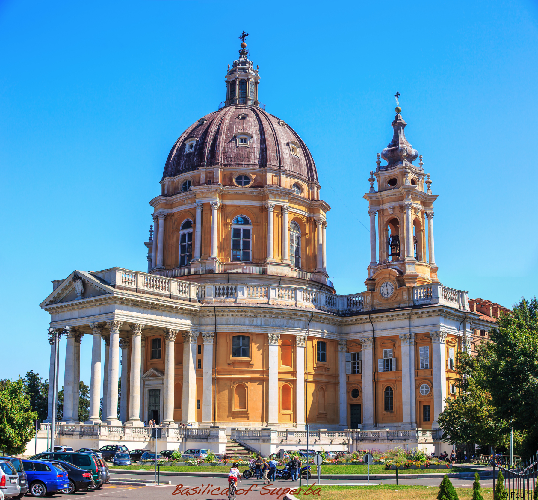 Turin panoramas…Superga Basilica